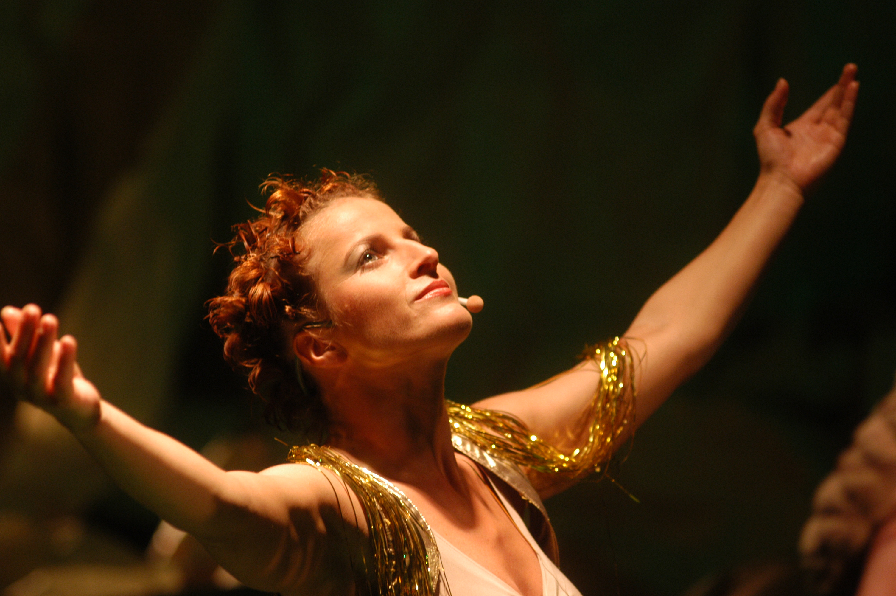 Petra Jungmanová actor of Městské divadlo Brno